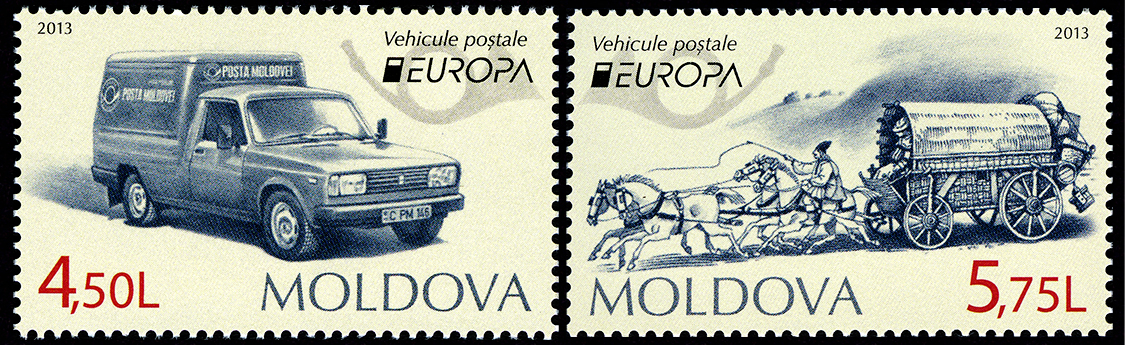 Postage stamps of Moldova, 2013. Postal transport. Issue on the program Europa.